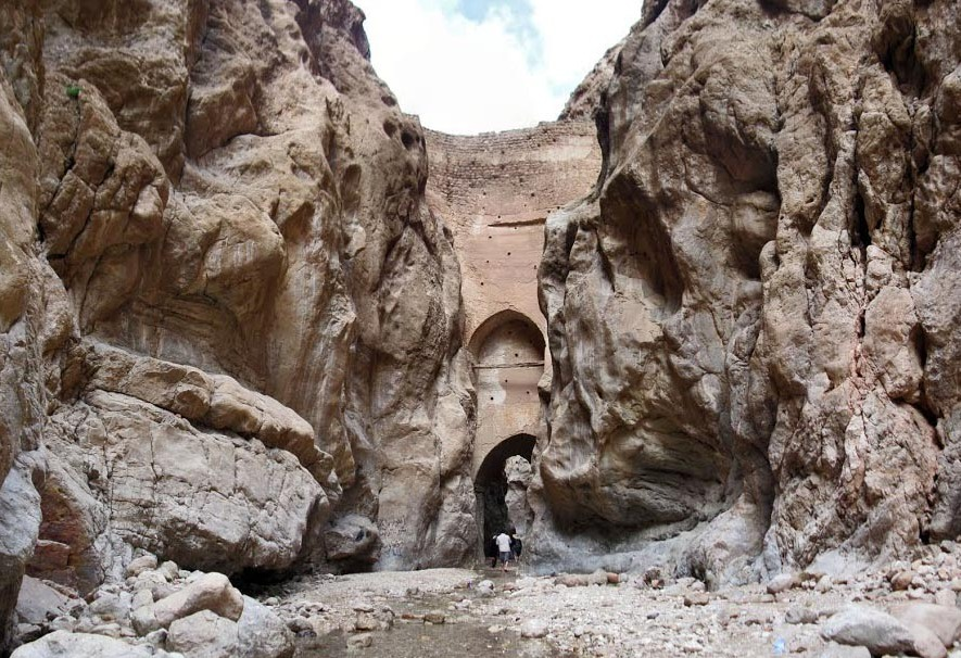 Shāh Abbās Arch (Persian: طاق شاه عباس), is the thinnest arch dam in the world and one of the oldest arch dams in Asia, that has been constructed in Tabas county, South Khorasan Province, Iran. This structure has 700 years old and 60 meters height and 1 meter width crest. Some of Historiographers believe the dam has been built by Shāh Abbās I and some others believe that Shāh Abbās I repaired it.